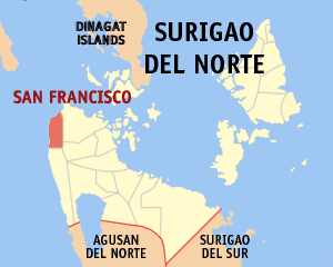 Map of the Surigao del Norte showing the location of San Francisco